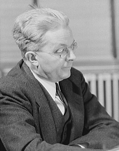 Roy Stryker, head of the Information Division of the Farm Security Administration or FSA during the Depression.